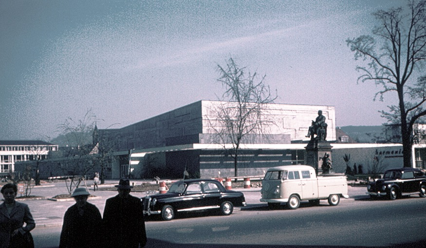 Harmonie Hn